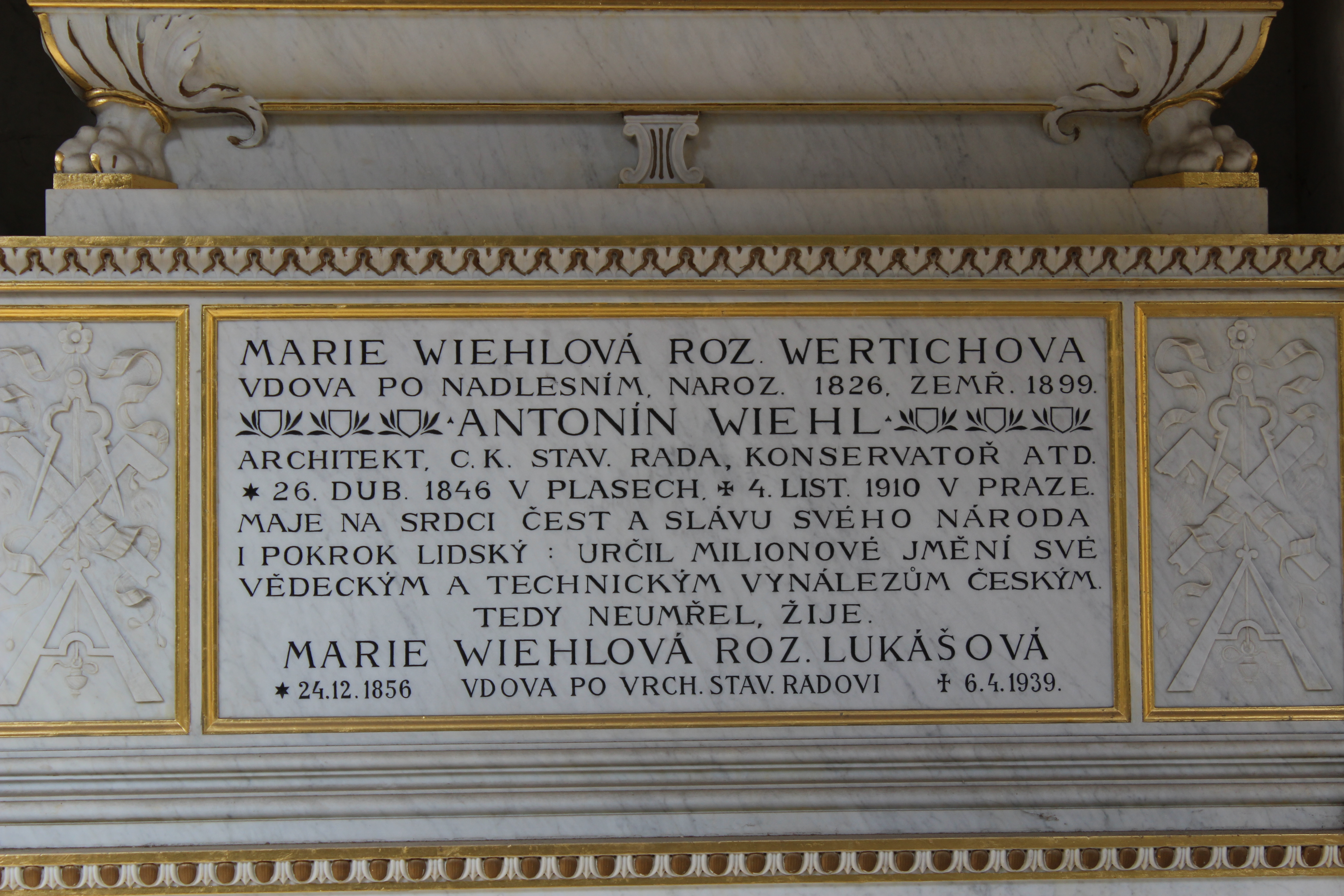 Grave of Antonín Wiehl (Vyšehrad Cemetery)